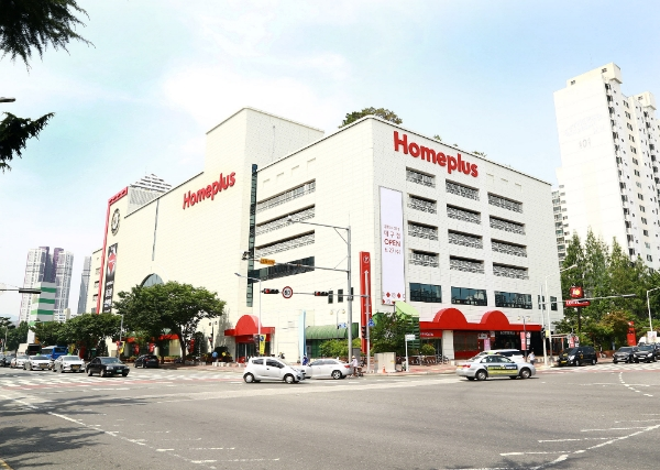 Wideview photo of the 1st Homeplus Special Store in Daegu